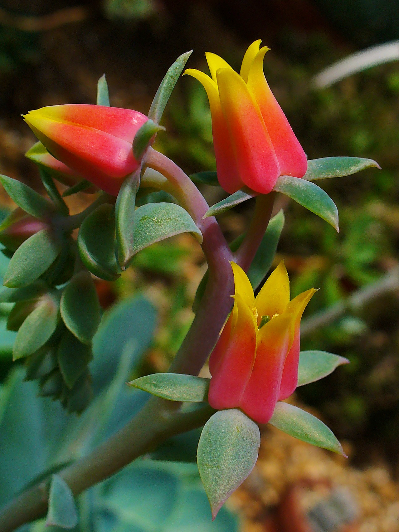 Inflorescence; Botanical Garden KIT, Karlsruhe, Germany.